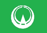 Flag of Tateshina Nagano